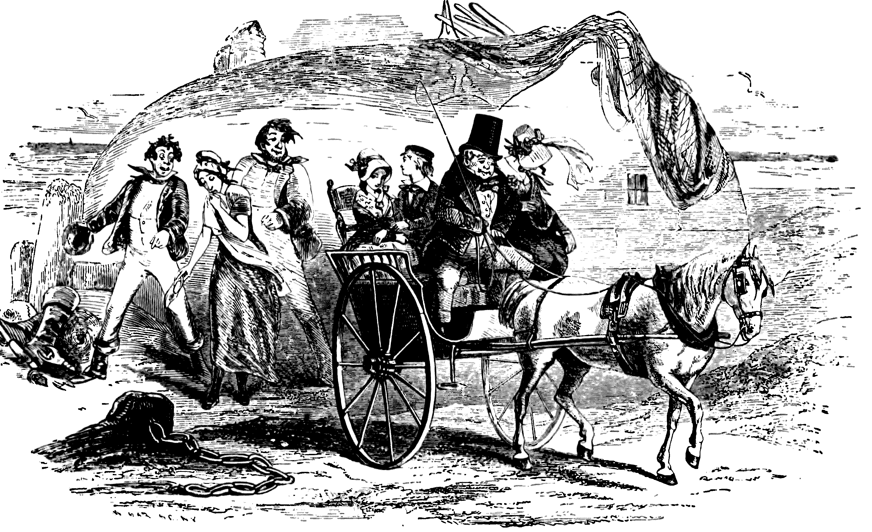 MRS. GUMMIDGE CASTS A DAMP ON OUR DEPARTURE